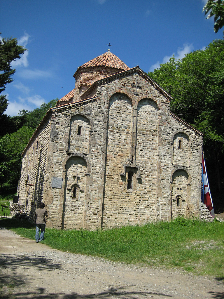 Q'velac'minda church in Gurjaani, Georgia